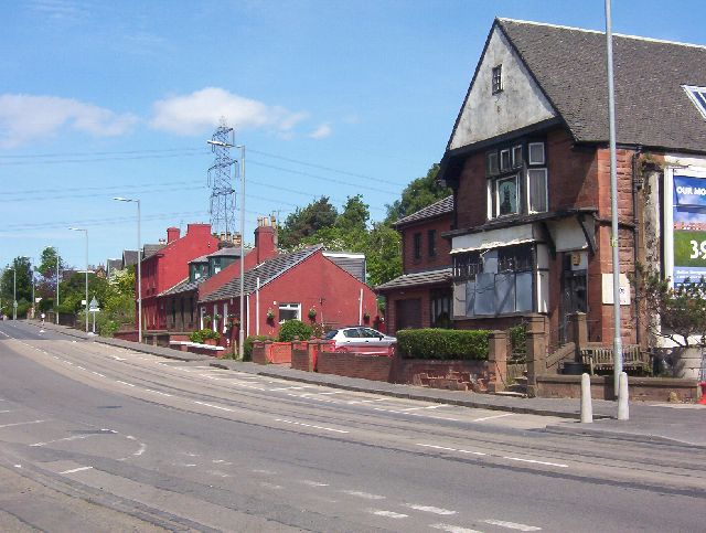 Broomhouse, Hamilton Road An old part of a very old village that has no shops but that is compensated by having two pub restaurants so life is good! The building on the right used to be the Post Office.